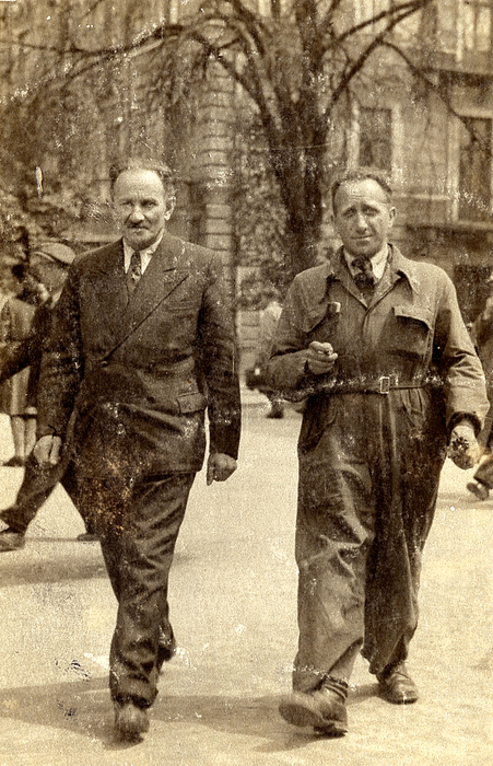 Cracow, Poland. A photo of Maksymilian Fiszgrund and Emil Haecker from a Cracow socialist paper "Naprzod".